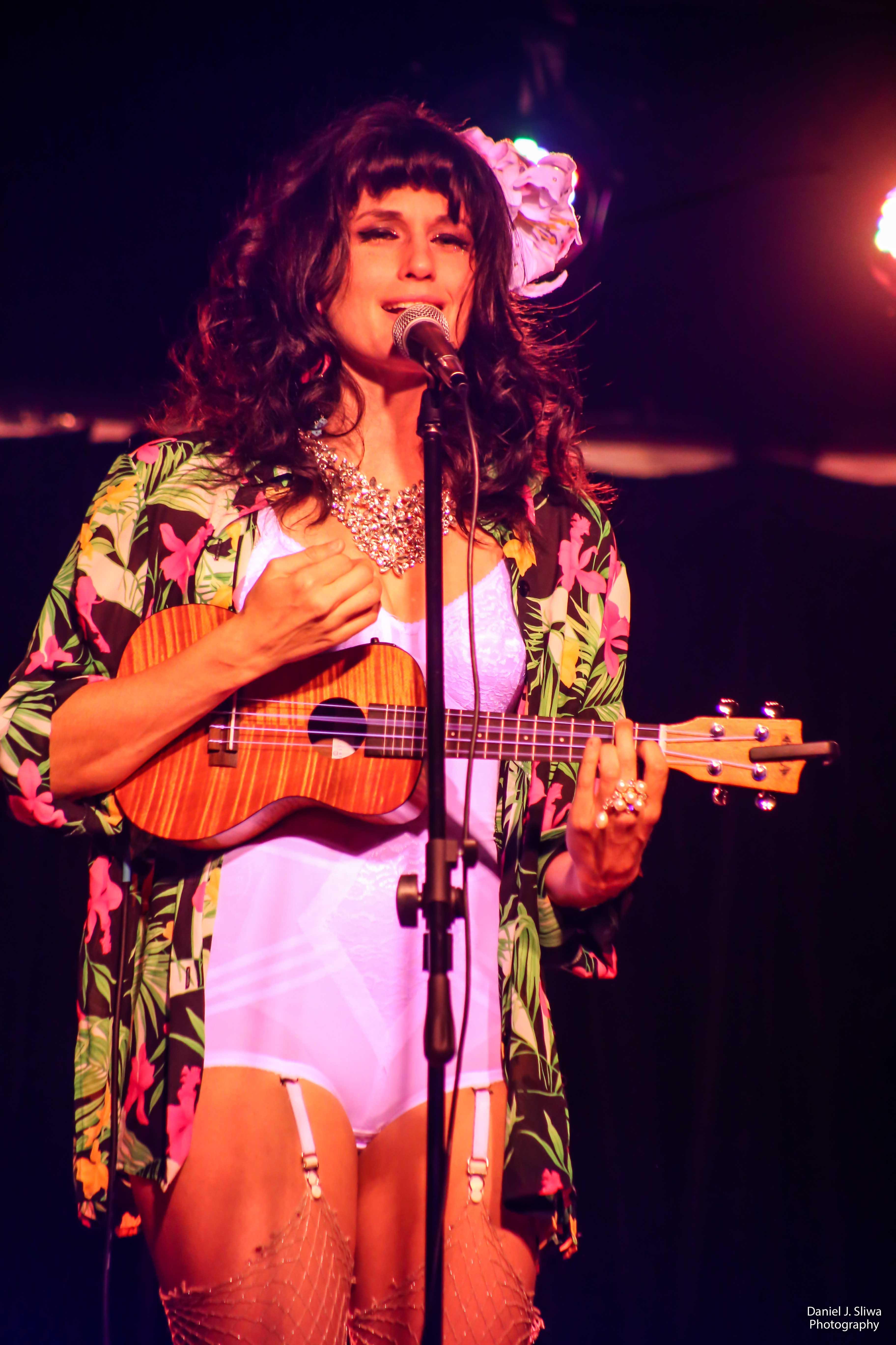 Scout Durwood performs live in onstage Los Angeles, CA.